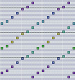 Shepard Tone Illustration